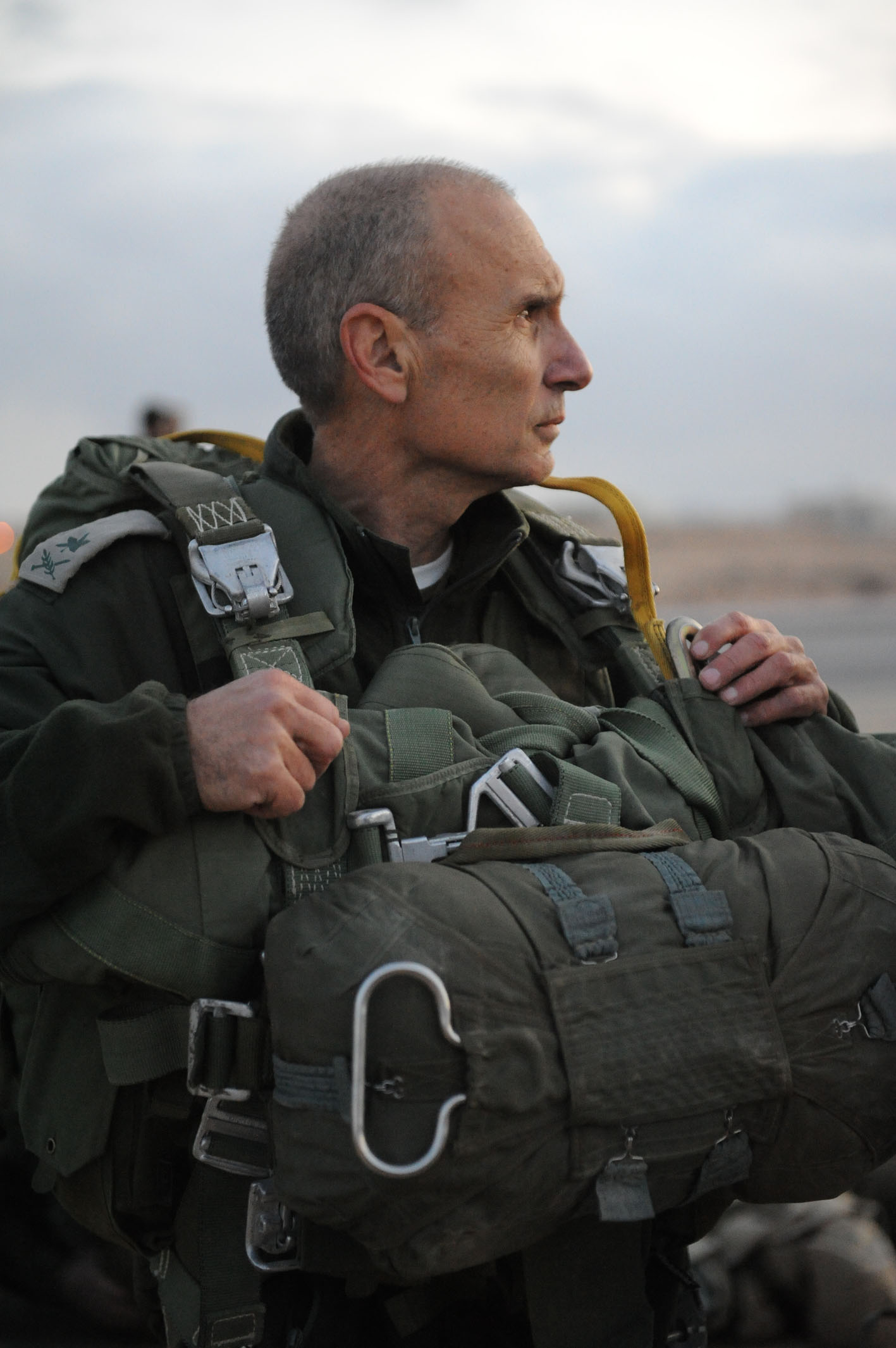 January 17, 2012 As part of their first operational parachuting drill in the last 15 years, the entire Paratroopers Brigade soared through the air. The drill was conducted under the supervision of the Brigade's commander, Col. Amir Bar'am, and in the presence of Maj. Gen. Gershon Hacohen. In the drill, thousands of the Brigade's soldiers have pushed their limits, examining their preparedness for whatever future operation that might arise, all in the effort to continue to assure Israel's security. The Israel Defense Forces Facebook The Israel Defense Forces blog Follow us on Twitter